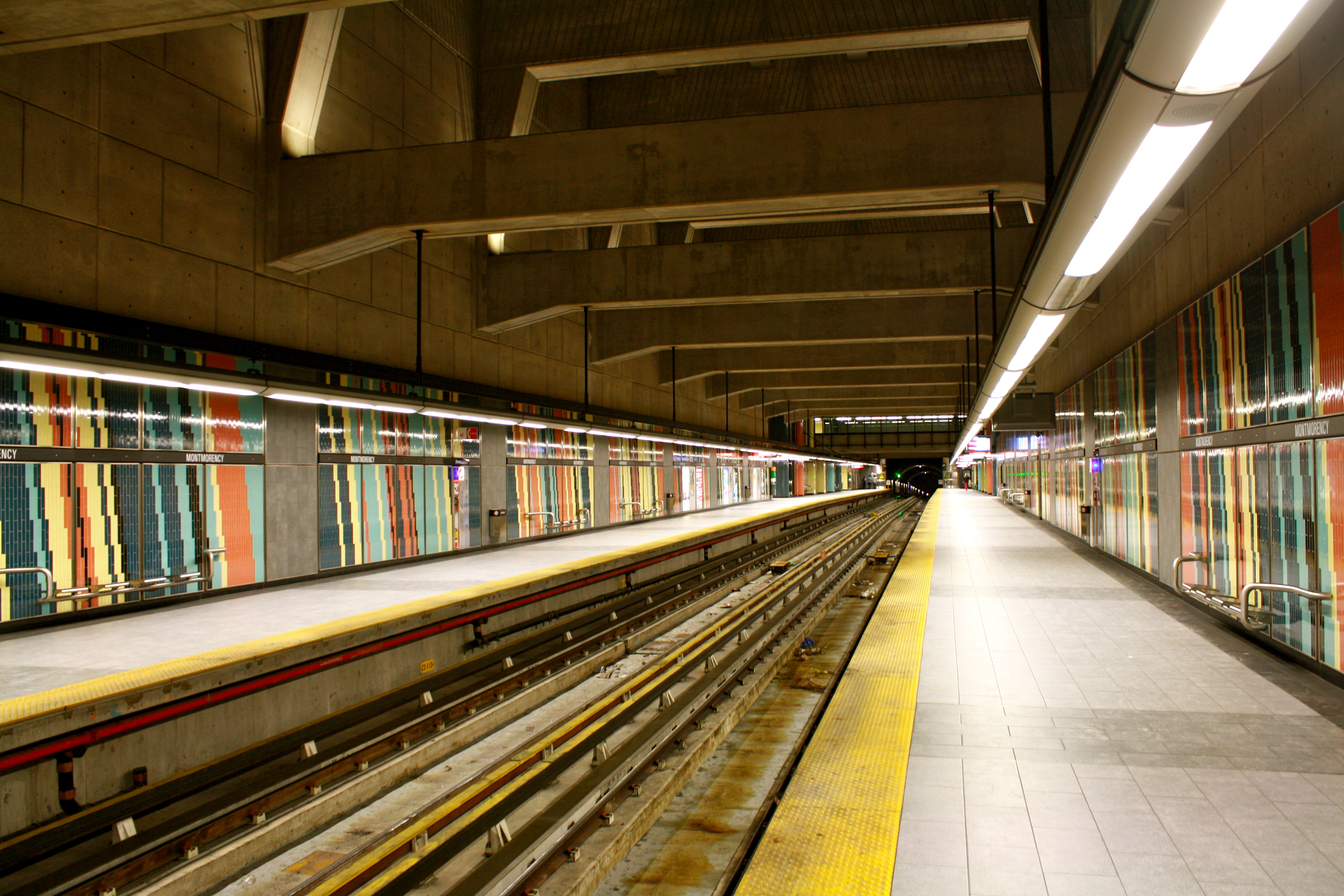 Montmorency Metro station platform